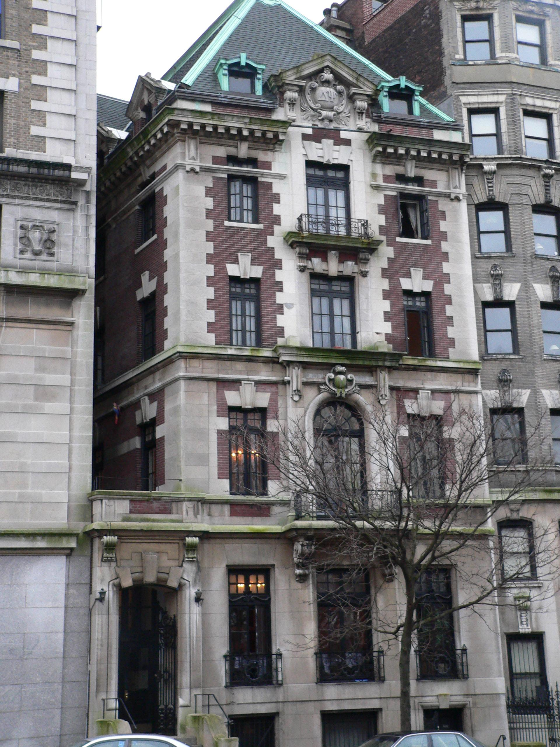 I photographed the building in New York City from the street in January 2007.